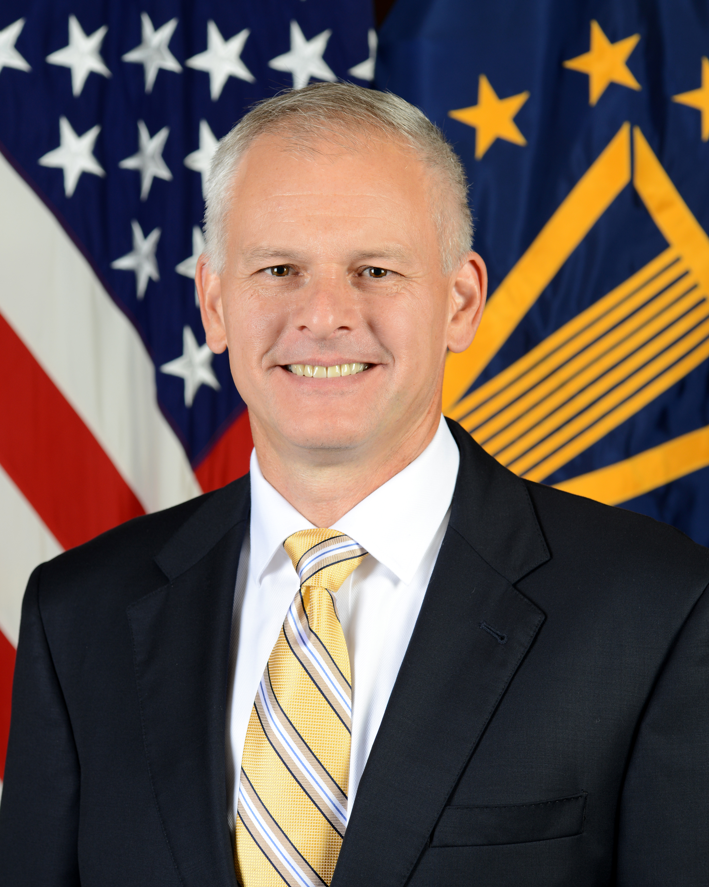 Vaughn A. Ary, convening authority and director, Office of Military Commissions, Office of the Secretary of Defense, poses for a command portrait in the Army portrait studio at the Pentagon on Oct. 3, 2014. (U.S. Army photo by Monica King/Released)